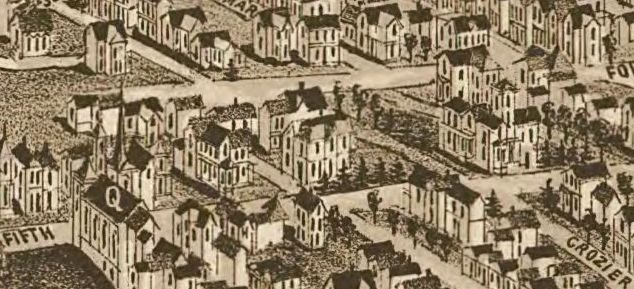 Detail of an 1886 map of Knoxville, Tennessee, showing Emory Place and adjacent roads. Emory Place is the wide road running horizontally across the top half of the image. "Crozier" is now Central Street. Most of these building are no longer standing.